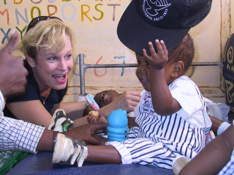 Heidi Baker at Christmas in the babyhouse in the Iris Ministries Children's Center in Zimpeto, Maputo, Mozambique.